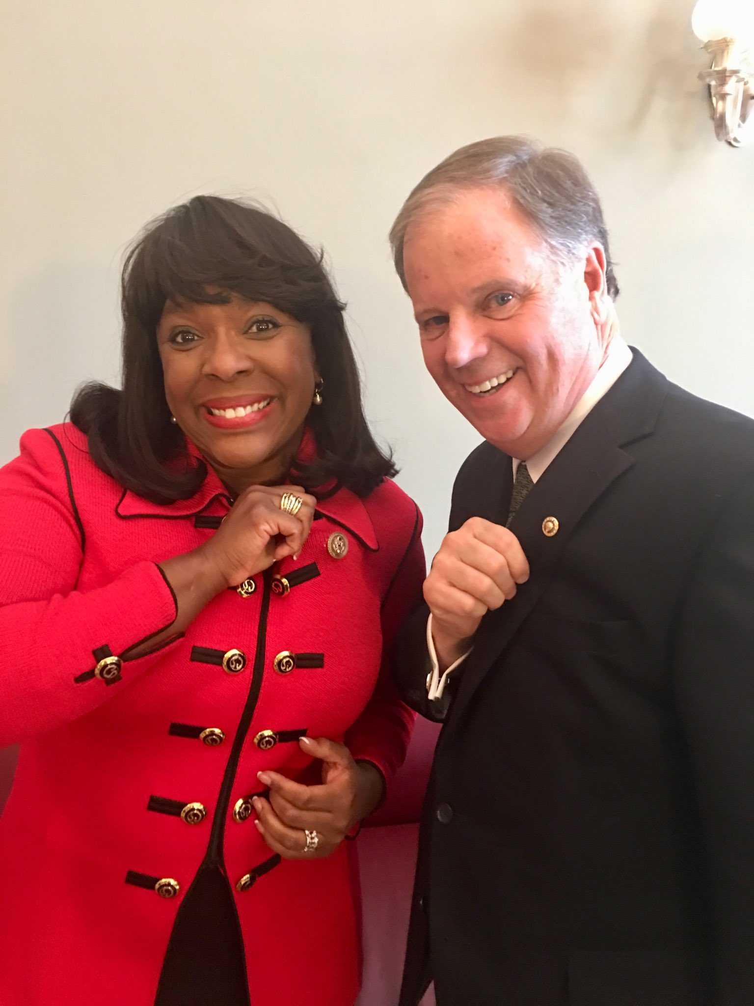 "Great Day for Alabama! Senator Doug Jones and I compare congressional pins! @GDouglasJones"